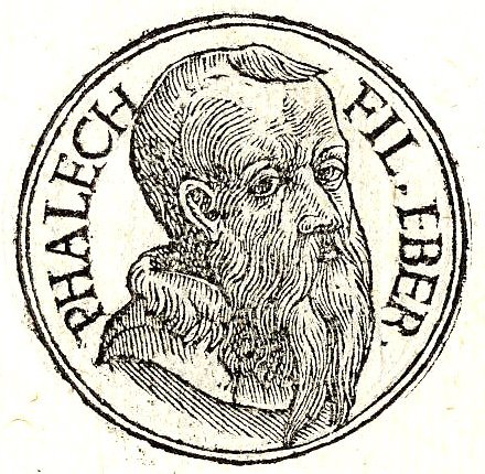 Peleg is mentioned in the Hebrew Bible as one of the two sons of Eber, an ancestor of the Israelites, according to the so-called "Table of Nations" in Genesis 10-11.